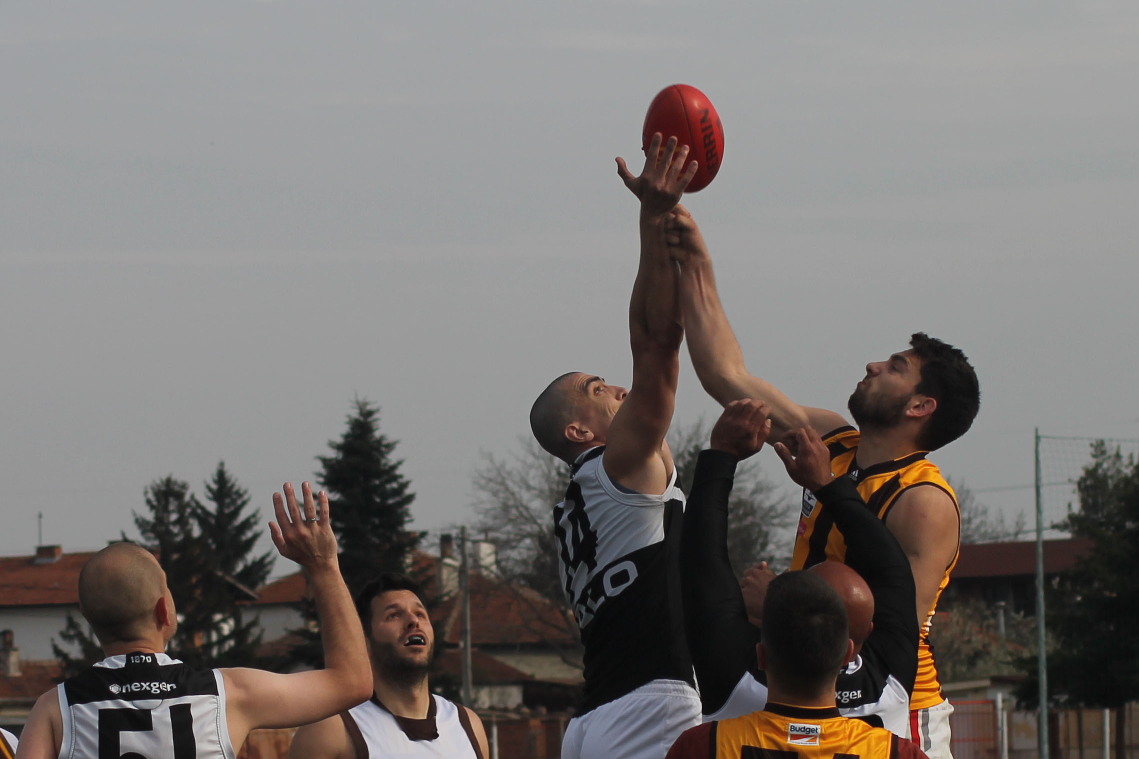 The first ever Aussie rules football game in Bulgaria